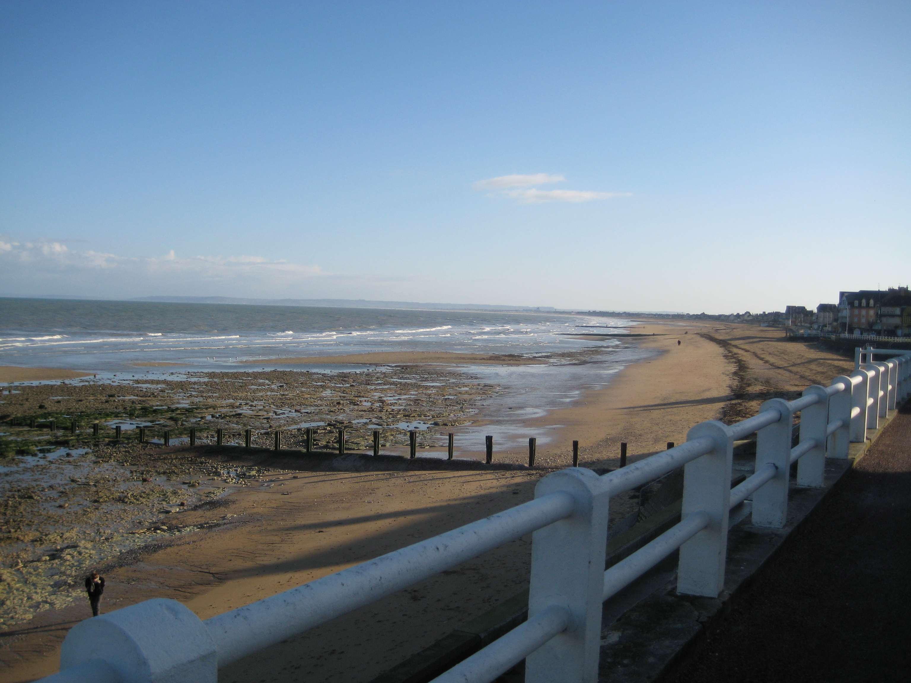 Beach of Lion-sur-mer, Normandie, France